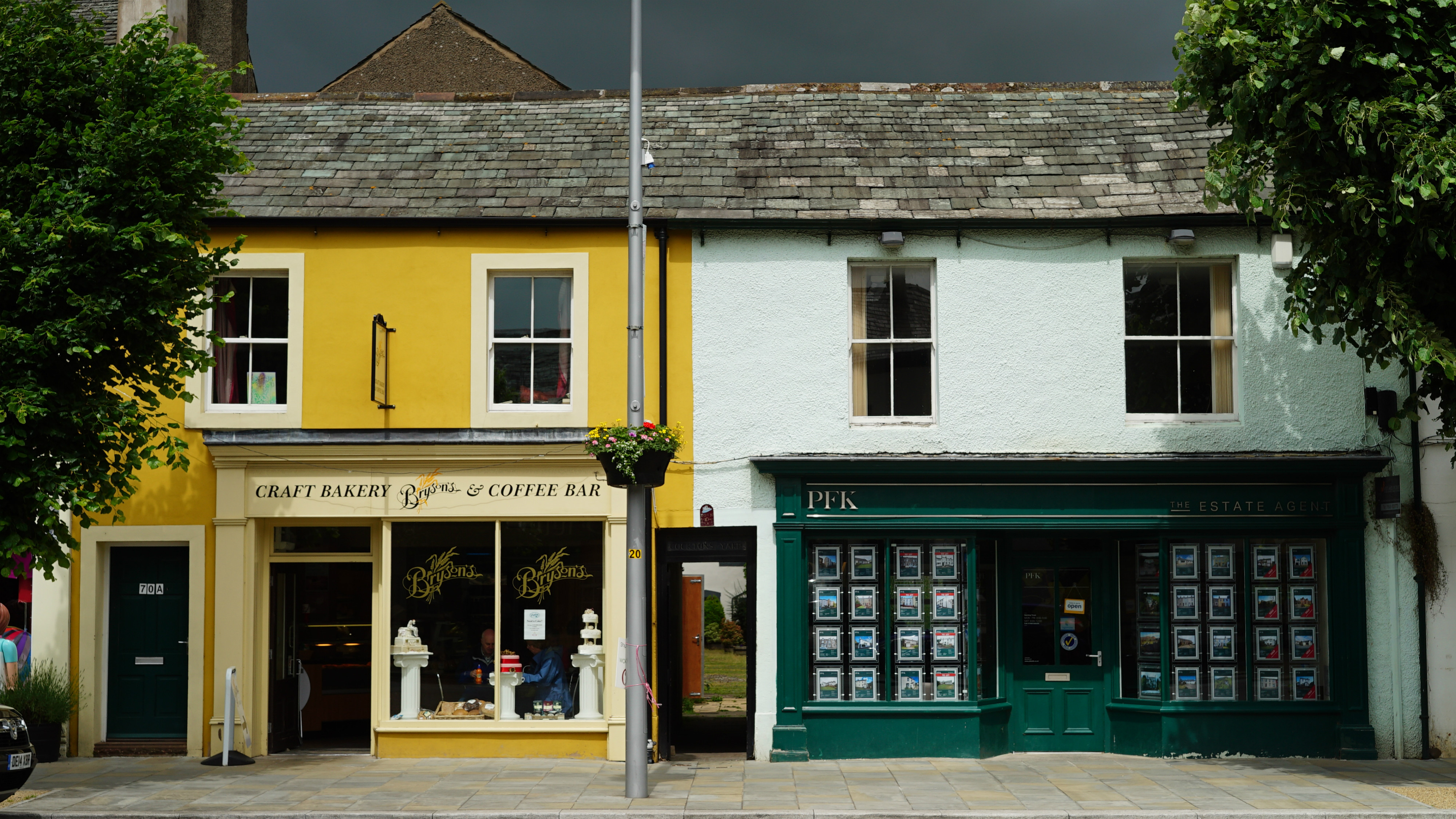 Dark sky over Cockermouth.